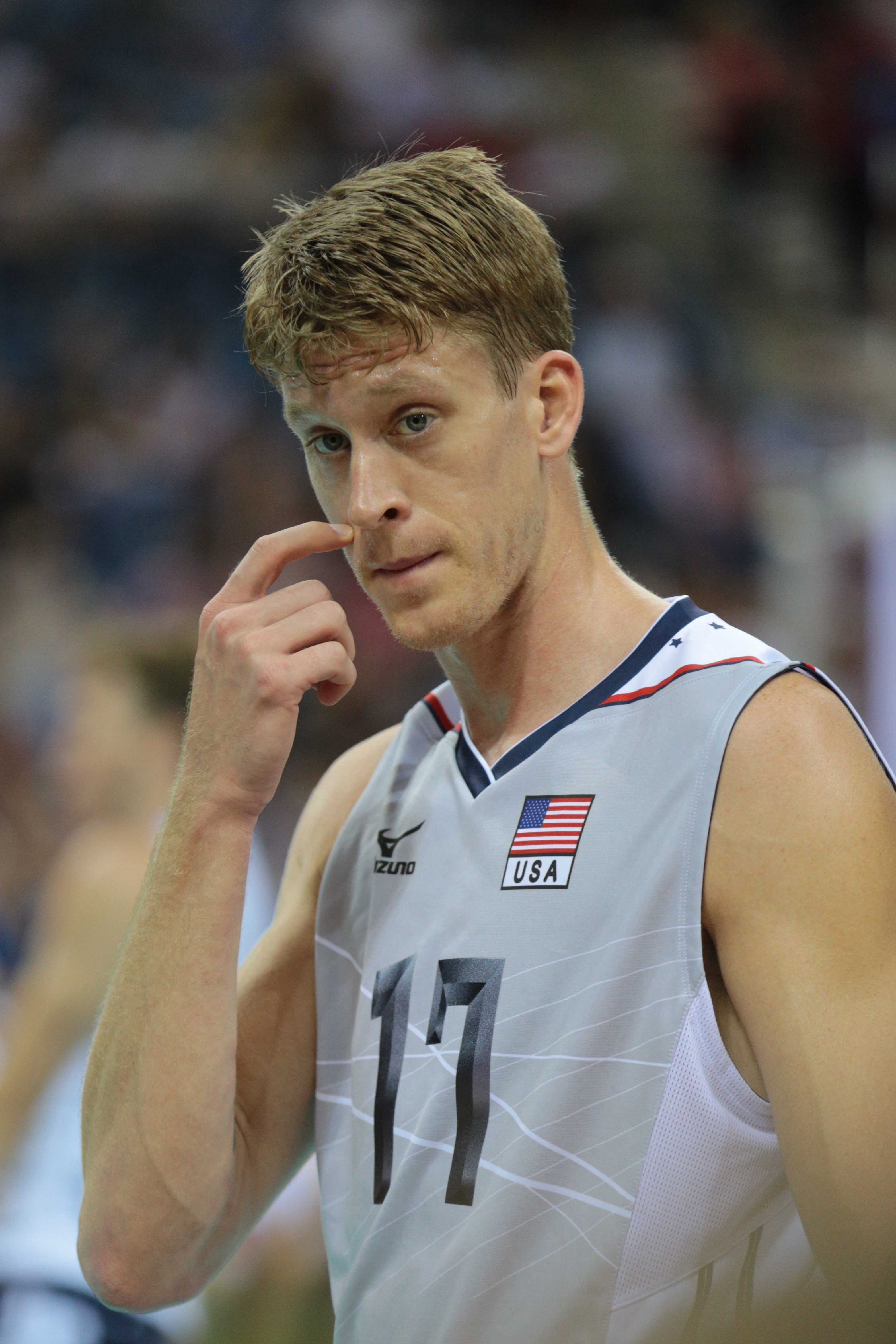 Maxwell Holt during Men's World Championship Poland 2014, playing against Italy in Kraków.